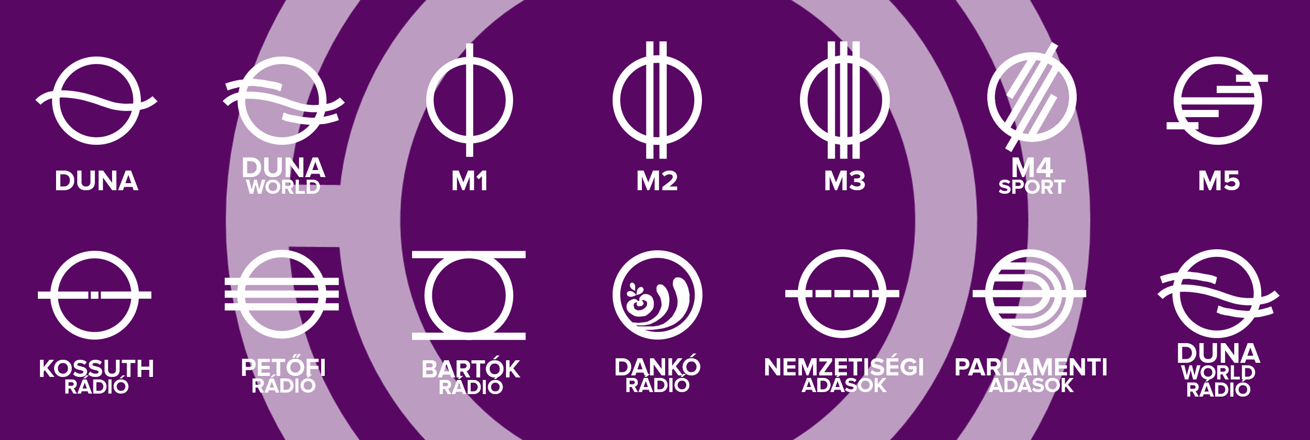 The logos of the radio- and TV stations of the Hungarian MTVA in monochrome.